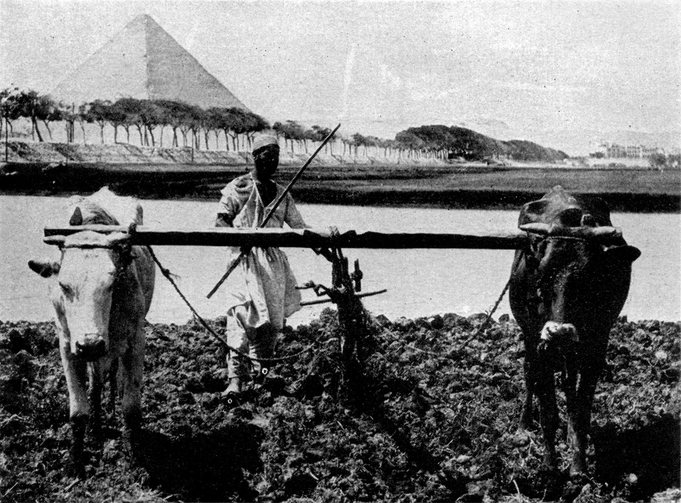 PRIMITIVE AGRICULTURE ON THE NILE